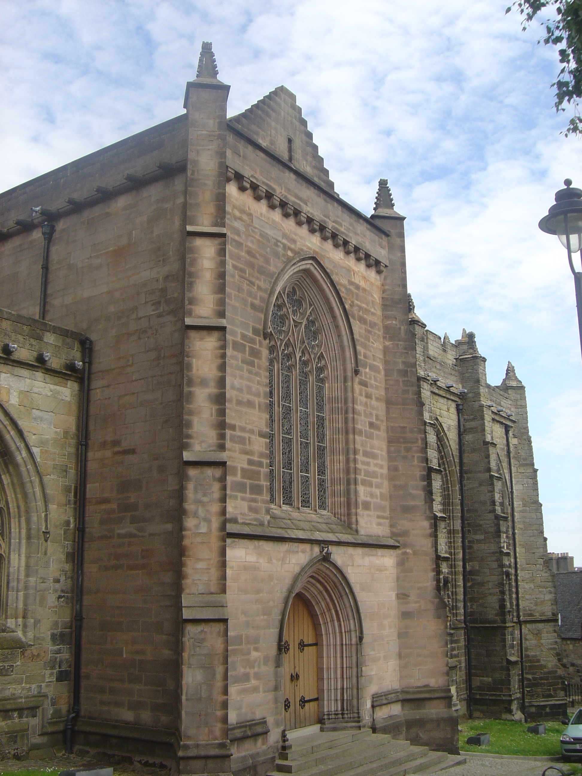 Stirling, Scotland, Church of the Holy Rude